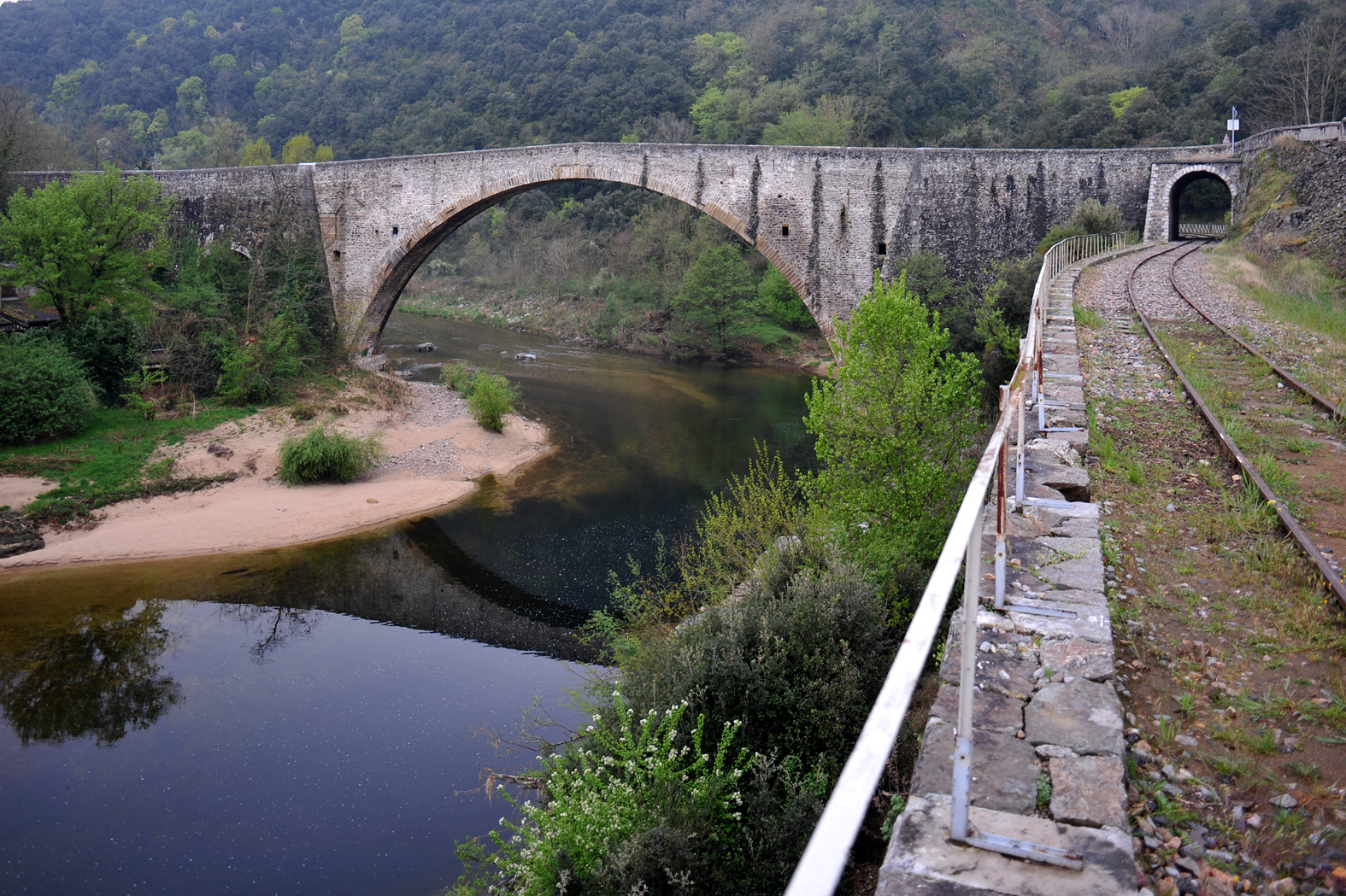 Grand Pont, west of Tournon-sur-Rhône; Ardèche, France.